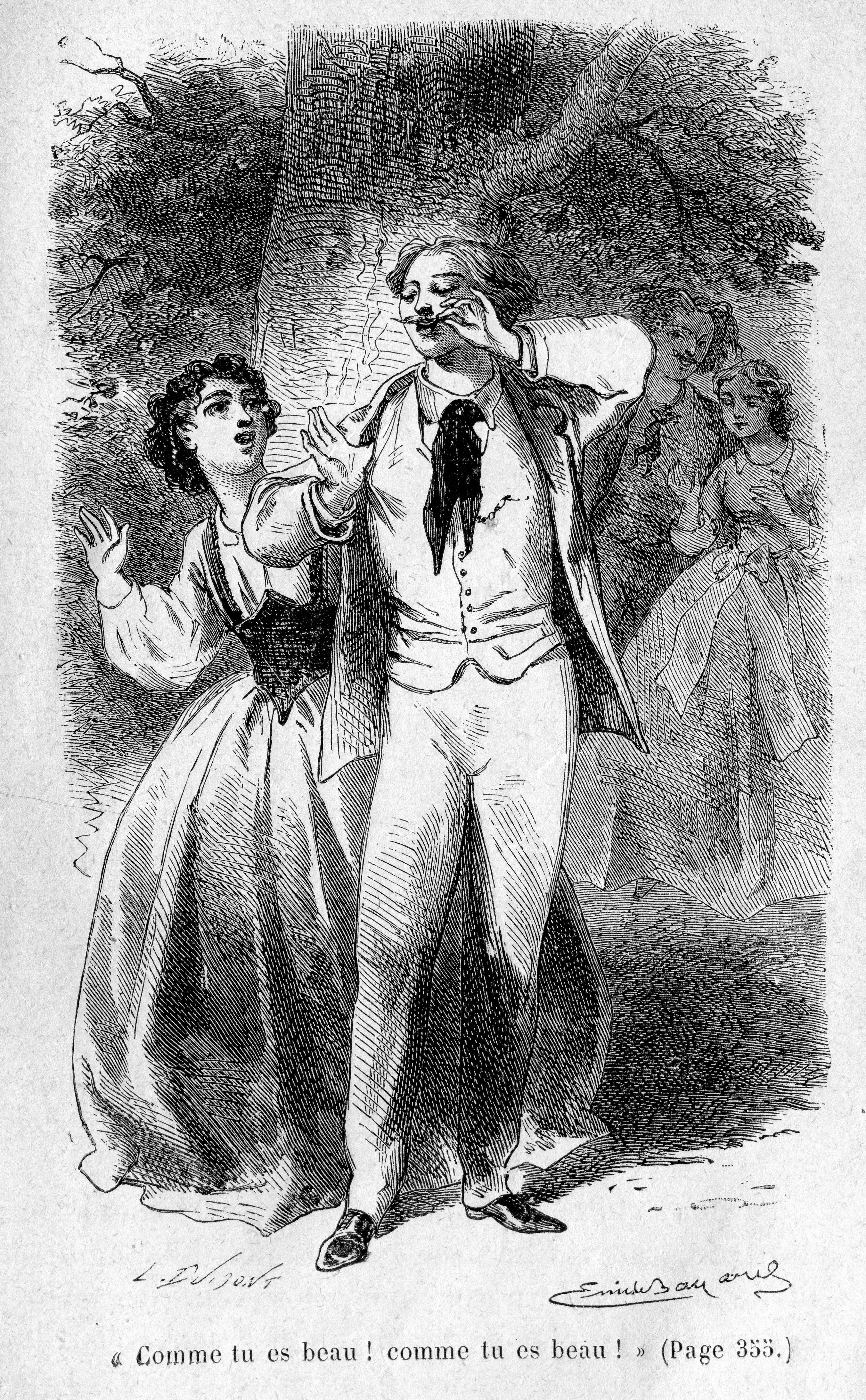 One out of 28 full-page illustrations by Émile Bayard in: Comtesse de Ségur: François le bossu, édition 1901.